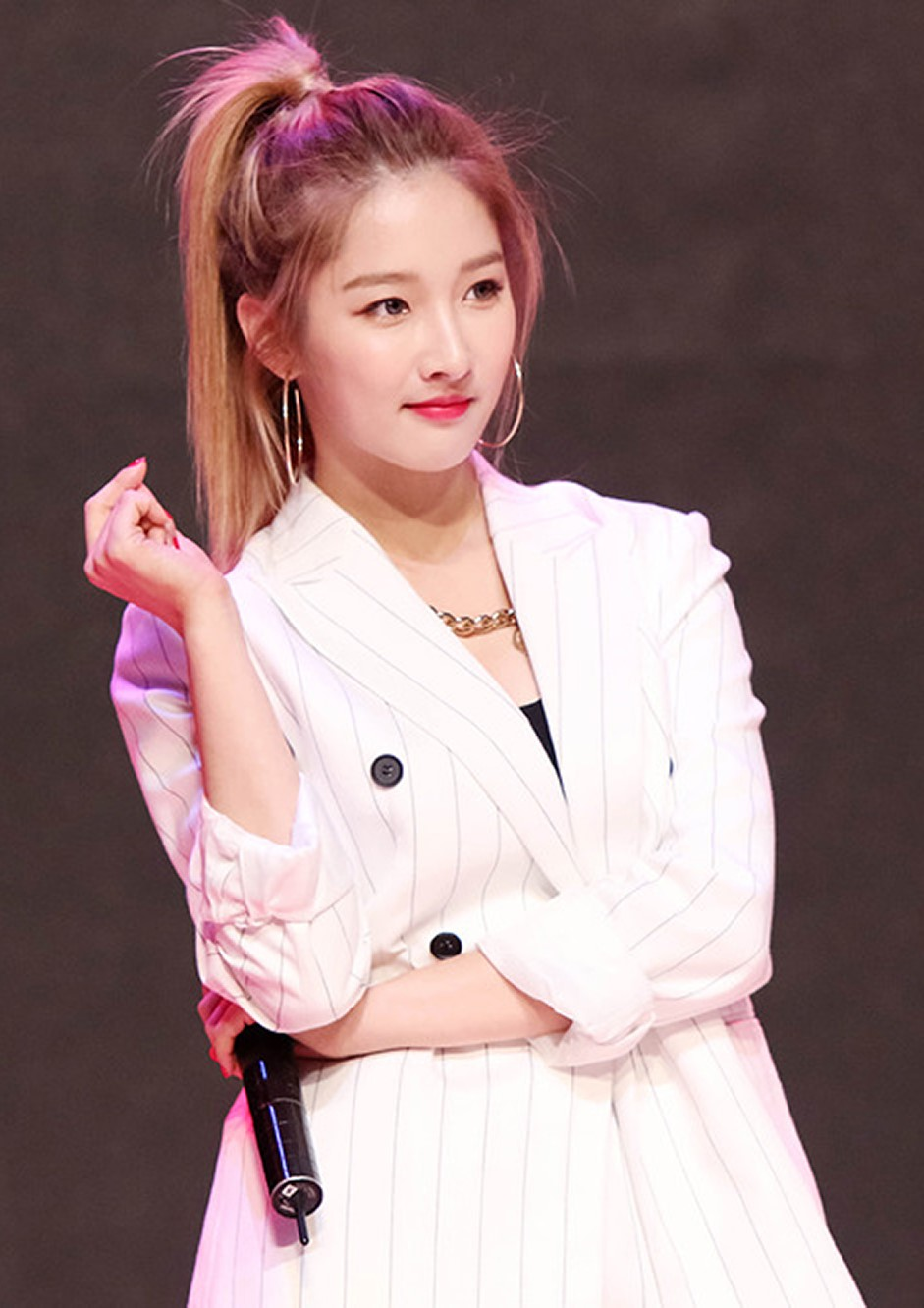 Nam Ji-hyun performing at the Hankuk International Festival on May 24, 2016.